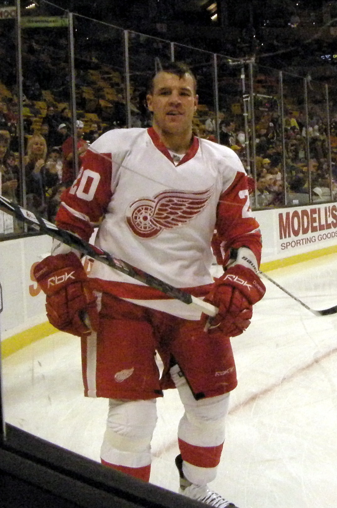 #20 Aaron Downey (RW)